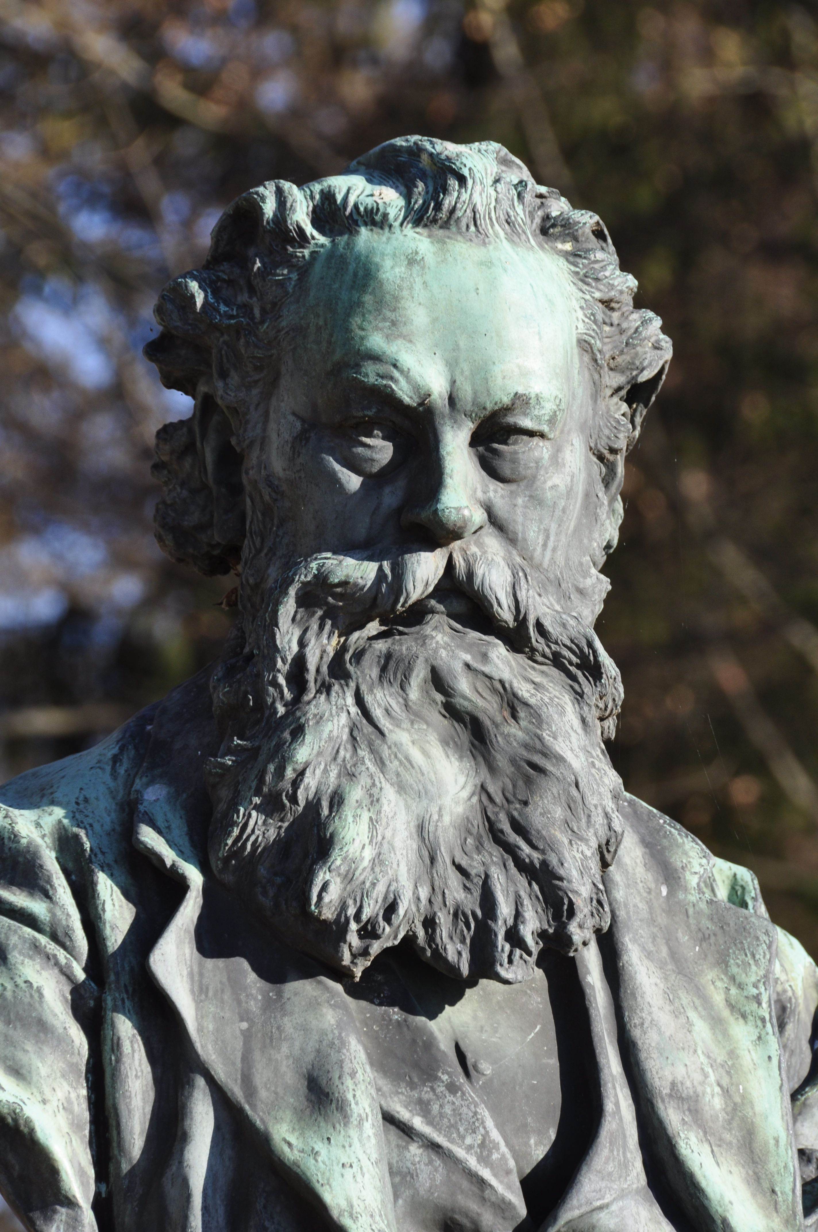 Wahliss-bust on the Johannes-Brahms-Promenade in Poertschach on the Lake Woerth, district Klagenfurt Land, Carinthia, Austria